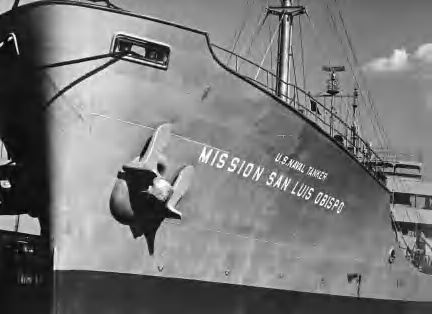 The US Naval Tanker Mission San Luis Obispo docked, my photo.